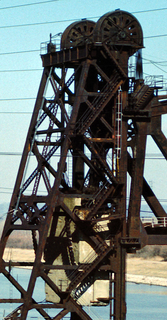 South tower of lift bridge, Fourteenth Street Bridge, Louisville